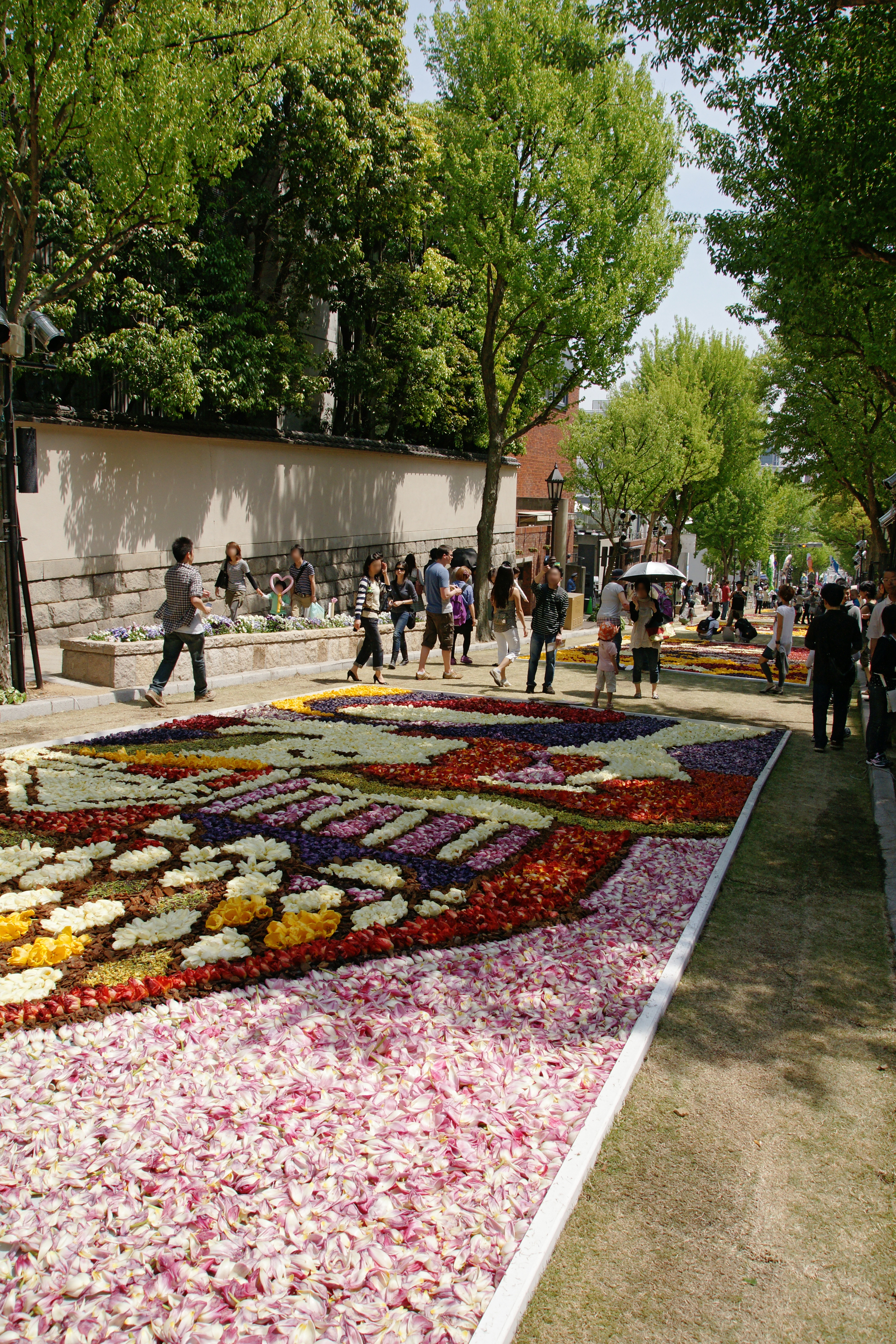 Infiorata Kobe 2006 at Kitanozaka in Kobe, Hyogo prefecture, Japan